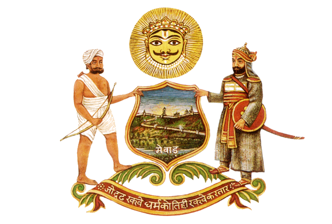 Coat of arms of Udaipur State or Mewar State. This design was commissioned in 1877.